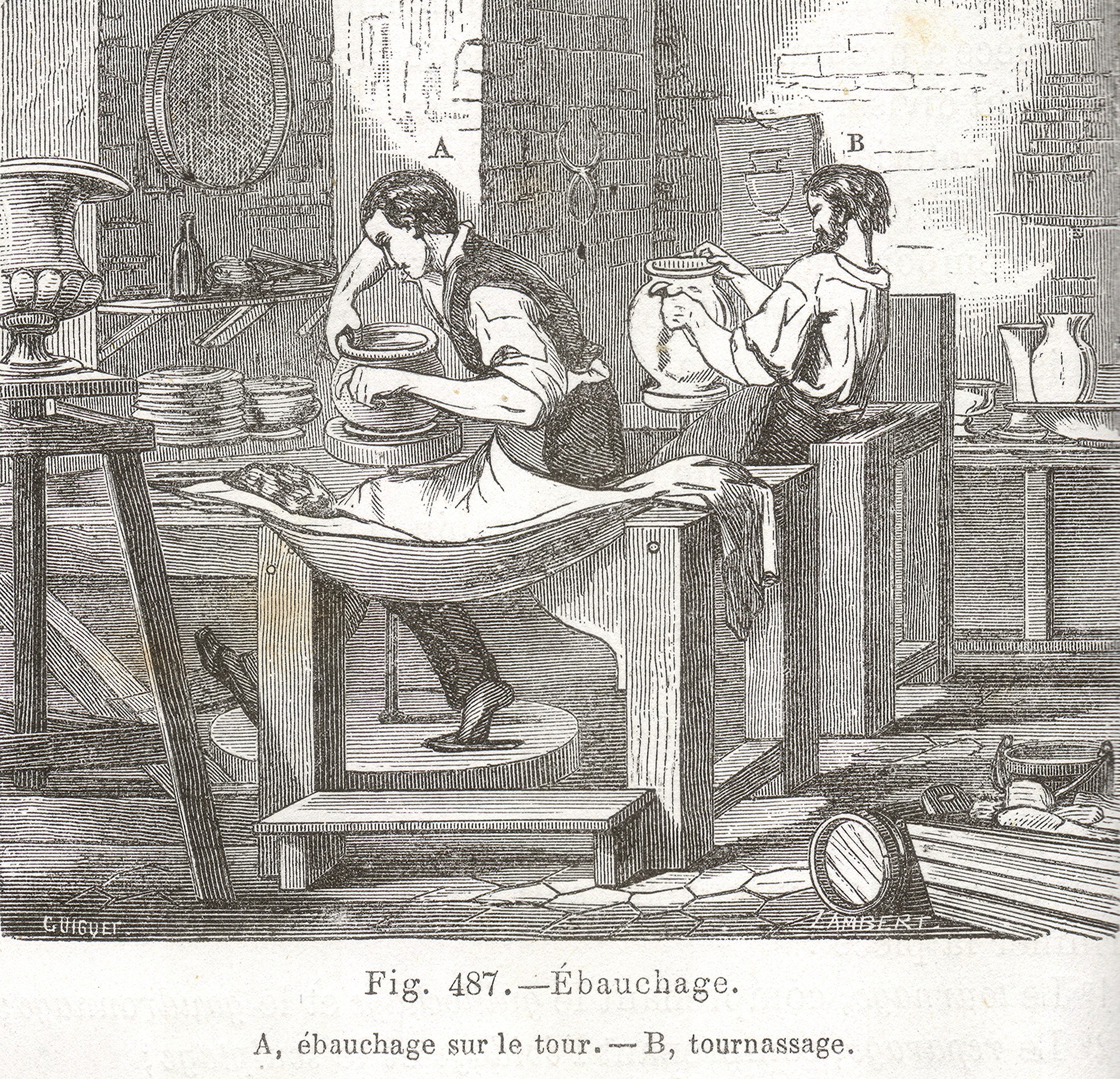 Pottery manufacturing.Picture scanned in : Dictionnaire de chimie industriel (Dictionary of industrial chemistry) (Barreswil, A. Girard) 1864, tome 3, page 306.